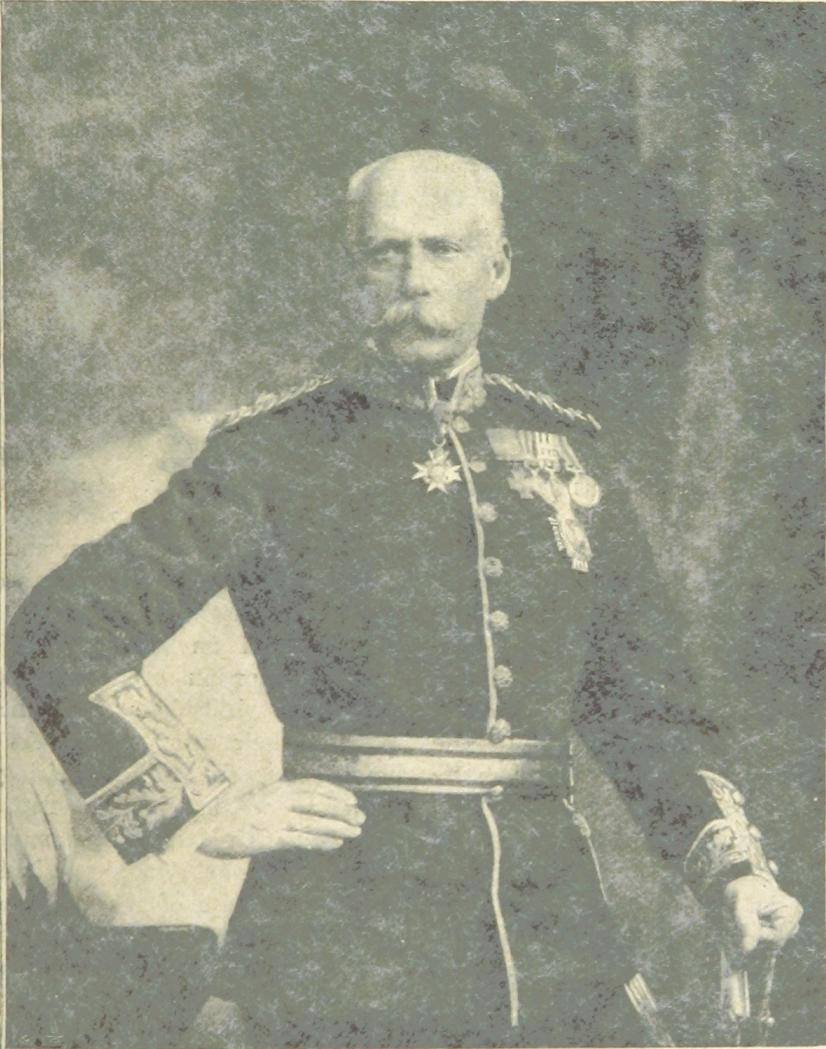 Sir Henry Havelock-Allan, 1st Baronet Image taken from: Title: "The Wars of the 'Nineties. A history of the warfare of the last ten years of the nineteenth century ... With ... illustrations ... and plans by the author" Author: ATTERIDGE, Andrew Hilliard. Shelfmark: "British Library HMNTS 9009.dd.6." Page: 559 Place of Publishing: London Date of Publishing: 1899 Publisher: Cassell & Co. Issuance: monographic Identifier: 000136915 Explore: Find this item in the British Library catalogue, 'Explore'. Download the PDF for this book (volume: 0) Image found on book scan 559 (NB not necessarily a page number) Download the OCR-derived text for this volume: (plain text) or (json) Click here to see all the illustrations in this book and click here to browse other illustrations published in books in the same year.